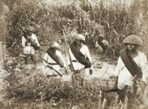 Christian Filipinos who served under the Spanish Army in their battle against the Moro Muslim in Mindanao, circa 1887.